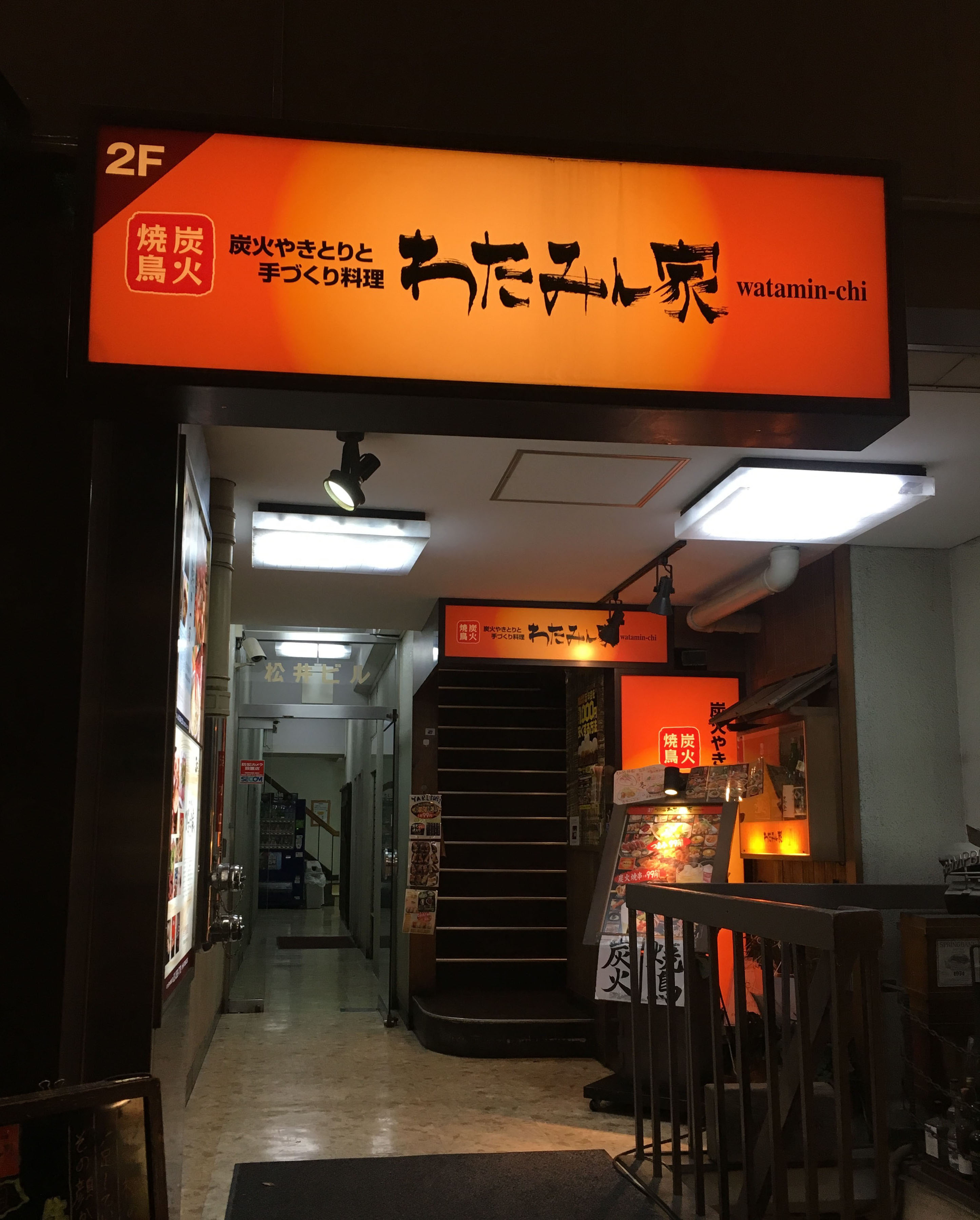 Watamin-chi (Japanese bar chain) Yurakucho-Hibiya-guchi branch (Tokyo, Japan)